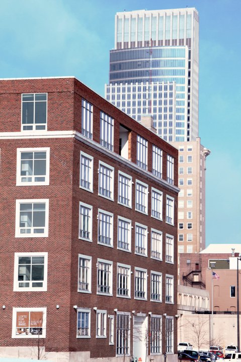 View of Market West looking north, with the Kimball Lofts Building in the foreground and the First National Tower in the distance. (Apparently downtown Omaha, Nebraska, USA.)